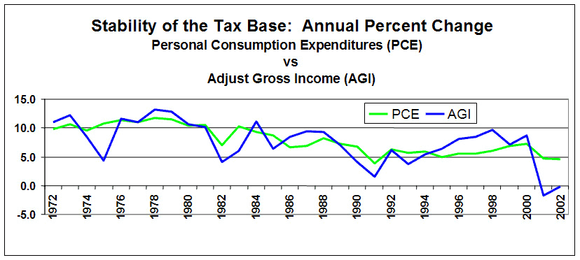 I Morphh (talk) 14:52, 23 March 2007 (UTC) created this image based on a similar graph by the Americans for Fair Taxation. I donate this work to public domain. Graph data source: Ross Korves, chief economist (retired), American Farm Bureau Federation